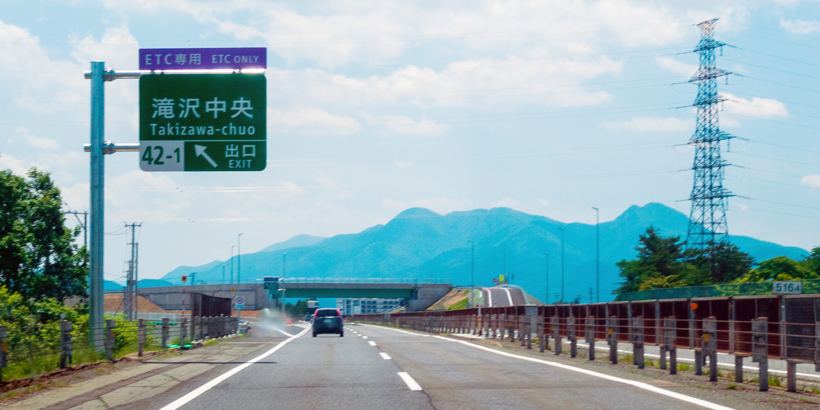 Takizawa-chuo Smart Interchange on the Tohoku Expressway in Takizawa City, Iwate Prefecture, Japan